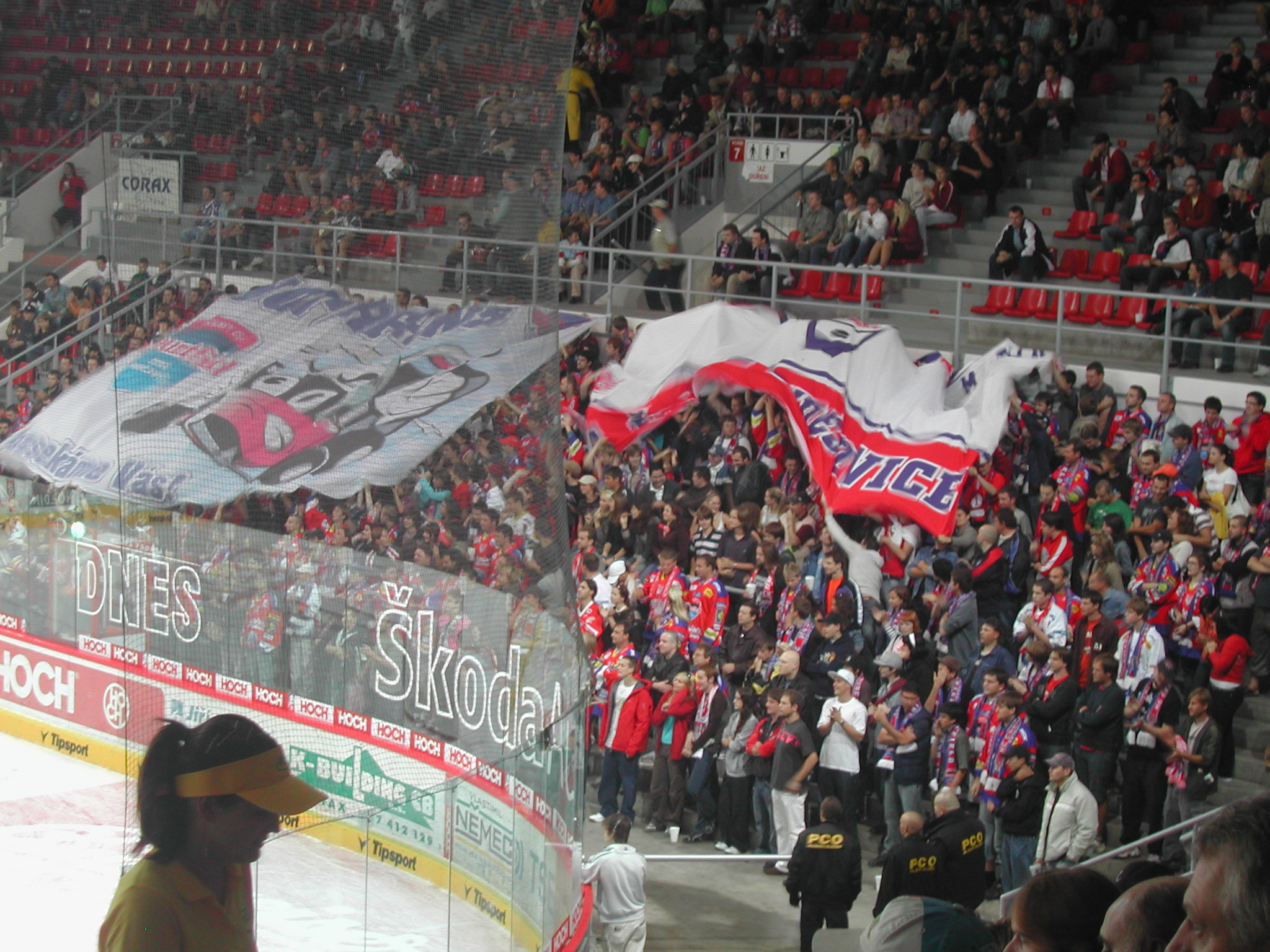 Hockey game HC České Budějovice vs. HC Lasselsberger Plzeň. Pics of the fans of České Budějovice